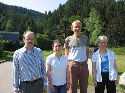 Description at MFO: On the Photo: * Grivaux, Sophie (2. from left) * Bayart, Frederic (2. from right) * Mortini, Raymond (left) * Gorkin, Pamela (right) * Occasion:Research in Pairs 2006 * Location: Oberwolfach * Author: Schmid, Renate (photos provided by Schmid, Renate) * Source: MFO * Year: 2006 * Copyright: MFO * Photo ID: 8218